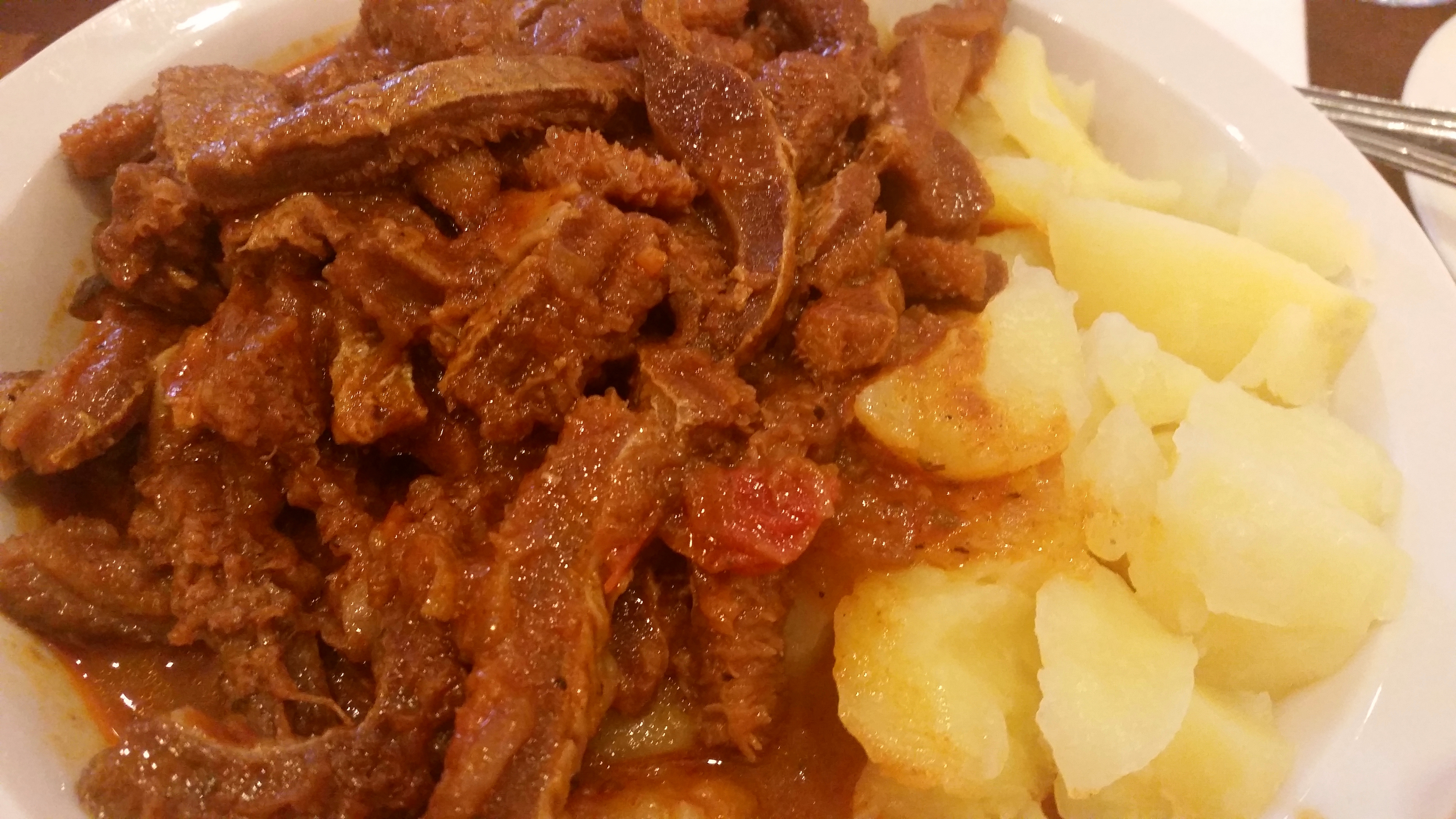 Cooked tripe with potatoes in a restaurant in Budapest ..